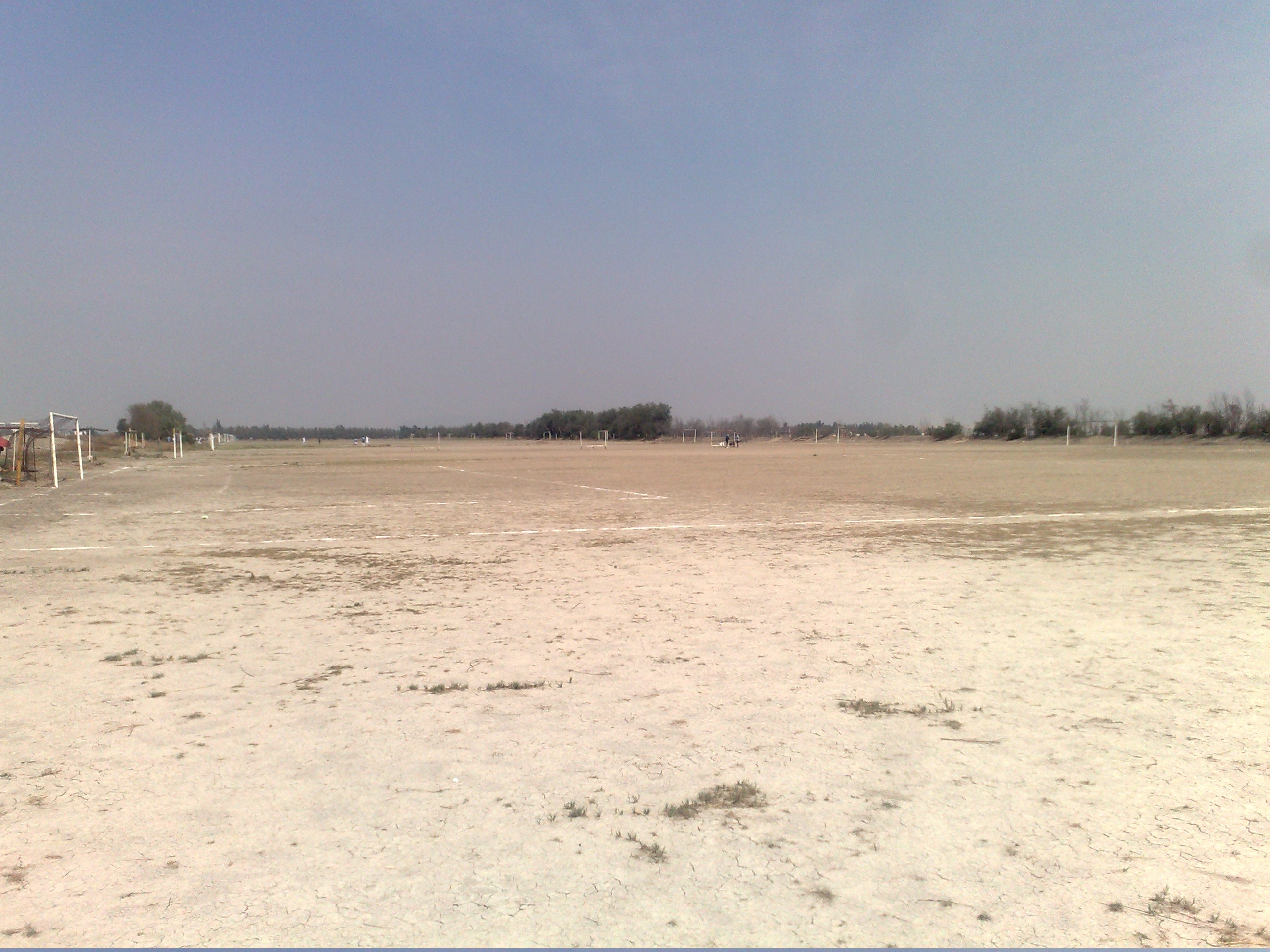 The Northern edge of Cd. Nezahualcoyotl used to be Mexico City's garbage dump, limited by one of the main open-air sweage systems. Its size is unbelievable – Huge is too small a word for it. After many years of being the dirtiest place in the city, it was shut down. Its land is poisoned unsuitable for basically anything. So, it was buldozered, leveled and covered in sand — and became an Ecological, recreational zone. The saddest, dirtiest ecological zone I've ever seen. A very surrealist setting. At least, recreational it is. Over the dead soil, 76 football fields were drawn. When we arrived there, we were amazed at the outflow of people – Many, many hundreds of people use this barren place for their Sunday morning sports. It must not be too healthy, but at least there is a sports, convivence area available for its huge population.